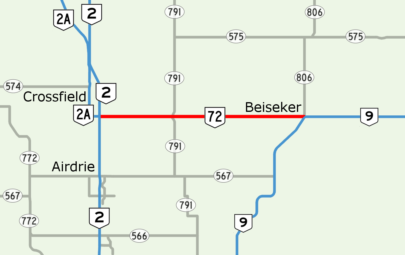 Highway 72 in central Alberta, Canada. - created with OpenStreetMap